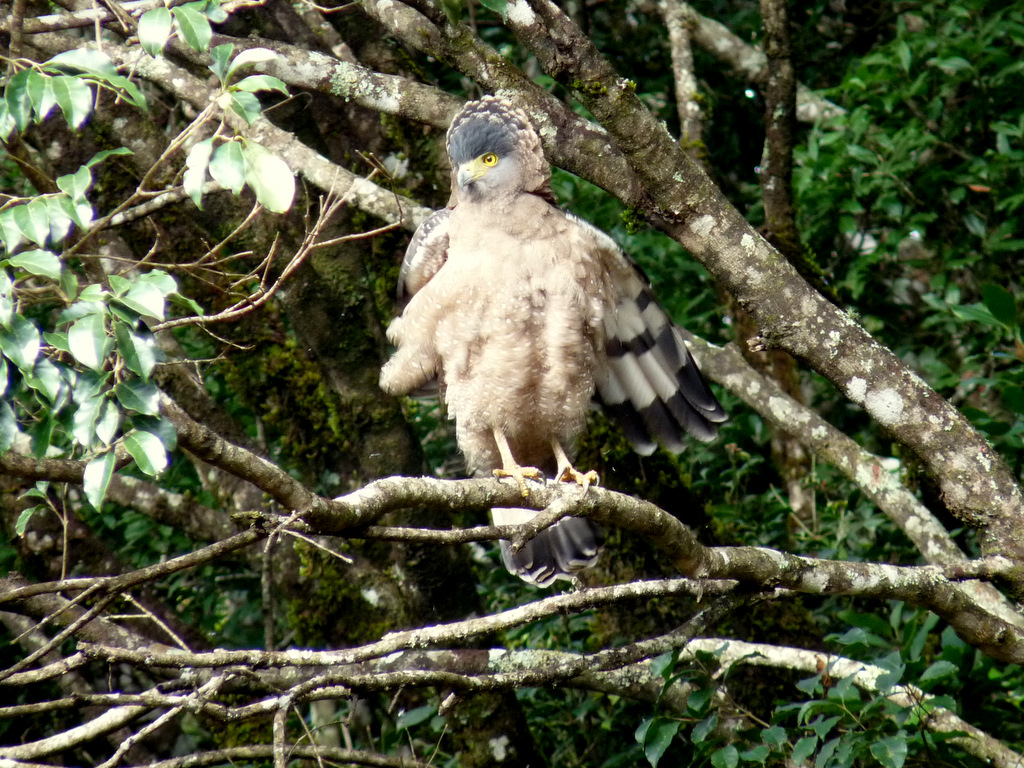 Crested Serpent Eagle - Korakundah Sholas of Nilgiris.